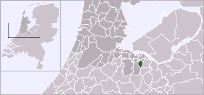 Locator map of Dutch municipalities in Noord-Holland (LocatieLaren.png)